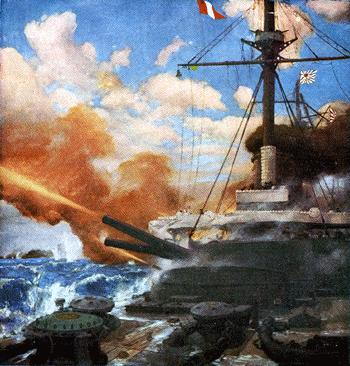 Mural painting of Japanese battleship Mikasa, "Russo-Japanese War, Battle of Tsushima".